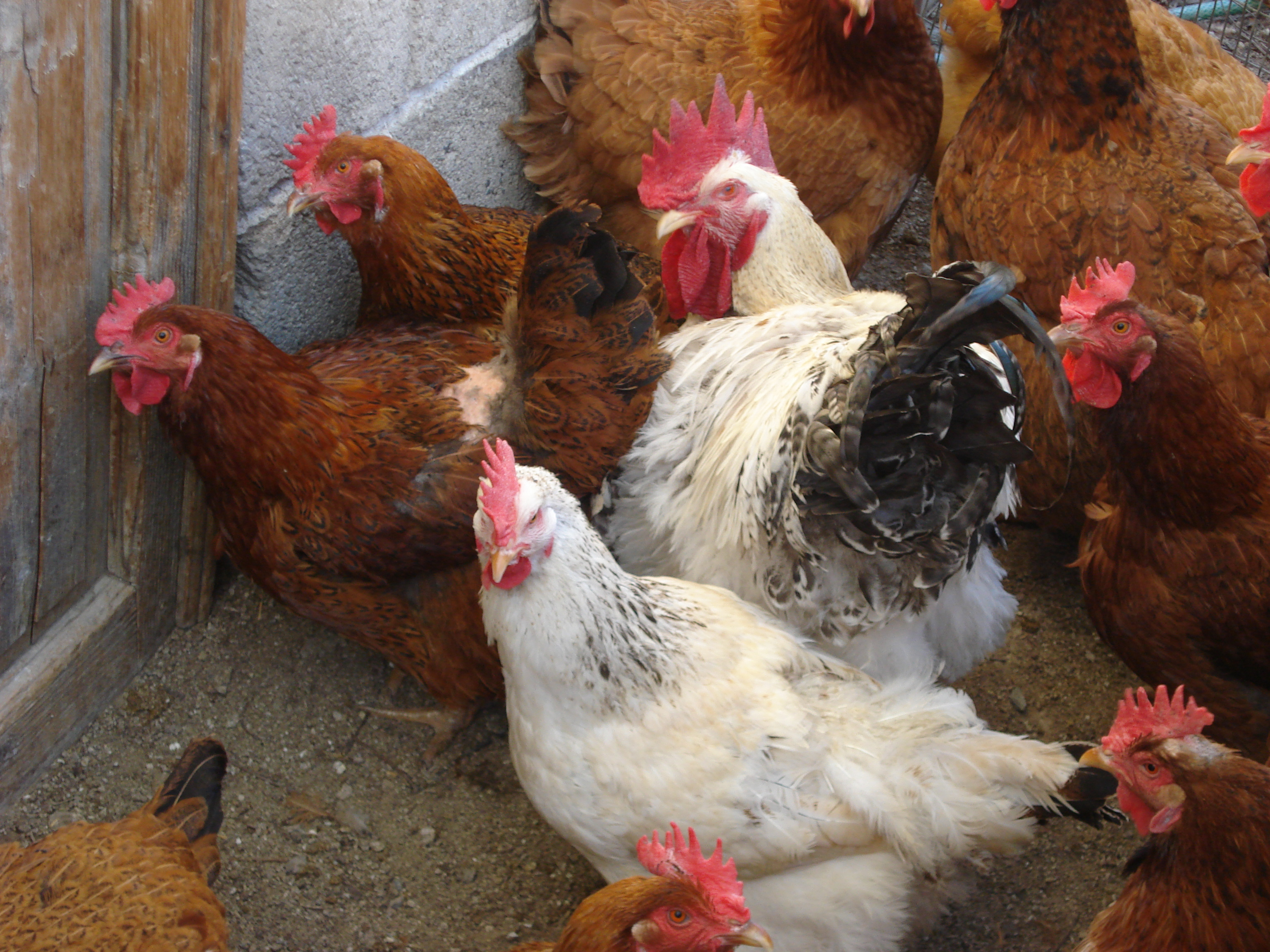 A hen house